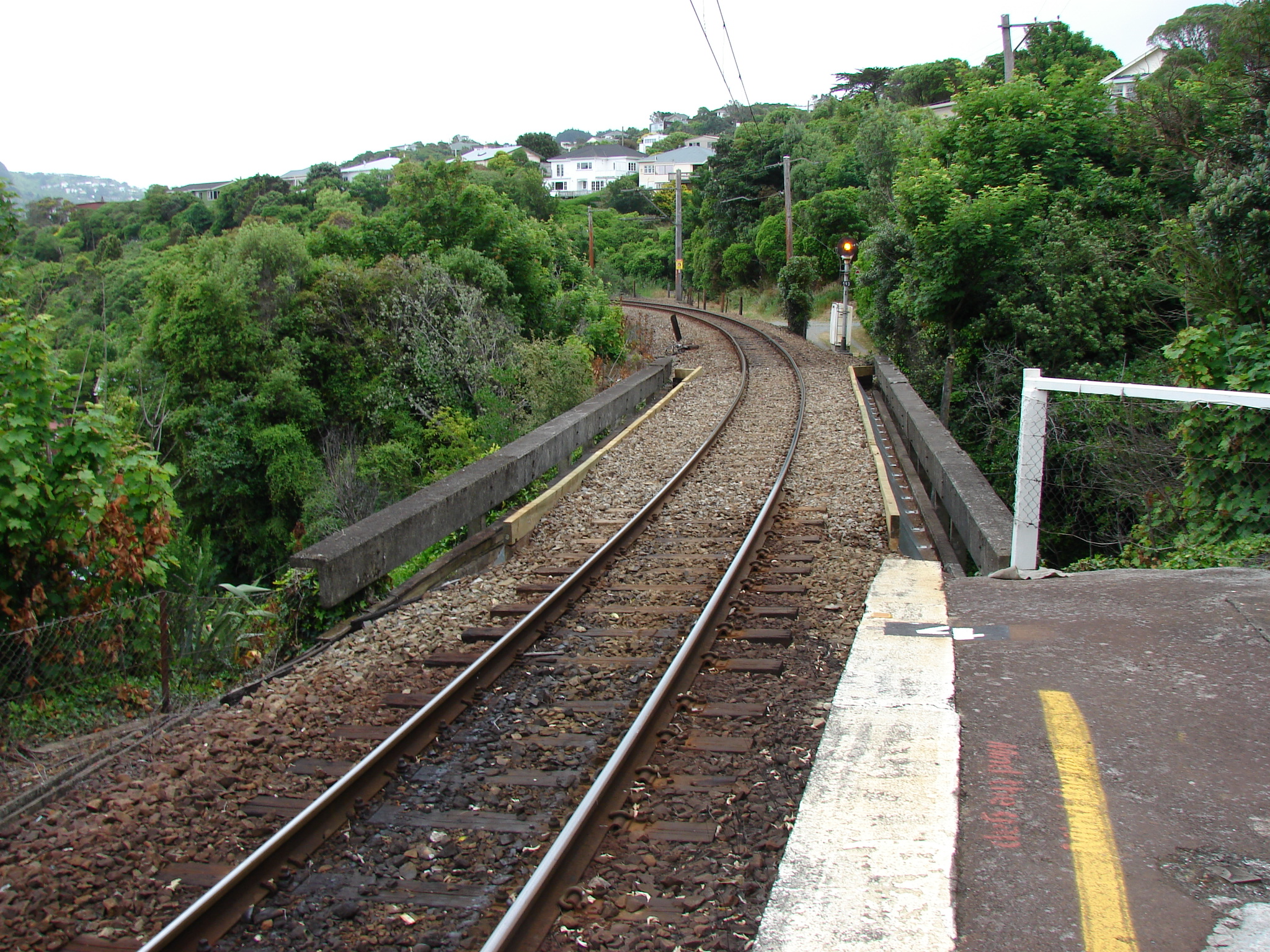 Rail overbridge at the southern end of Awarua Street railway station. Photographed by Matthew25187 on 2007-12-17.